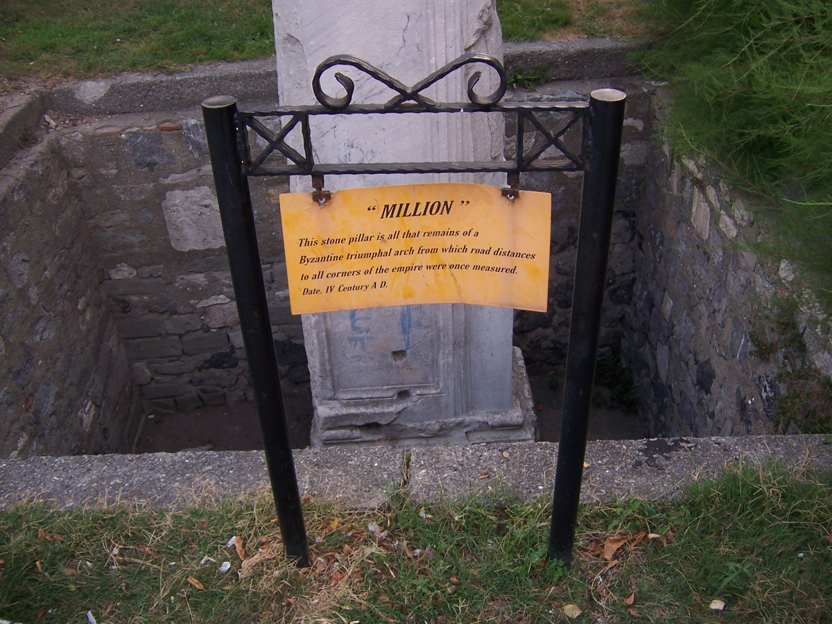 The remain of Byzantine arch "Million" in Istanbul.